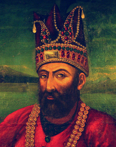 Painting of Nader Shah, he was Shah of Iran from 1736 to 1747, he created the Afsharid dynasty, an Iranian empire.